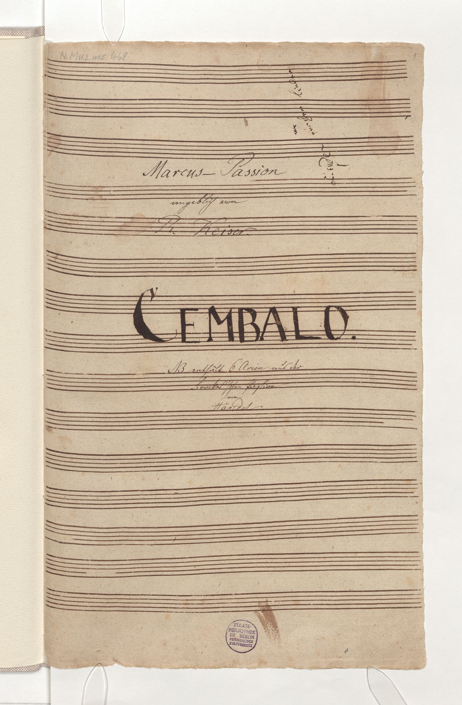 Cover of the manuscript source D B N. Mus. ms. 468 for the Harpsichord part of BC D 5 at the Staatsbibliothek zu Berlin. Taken 23 February 2011 from